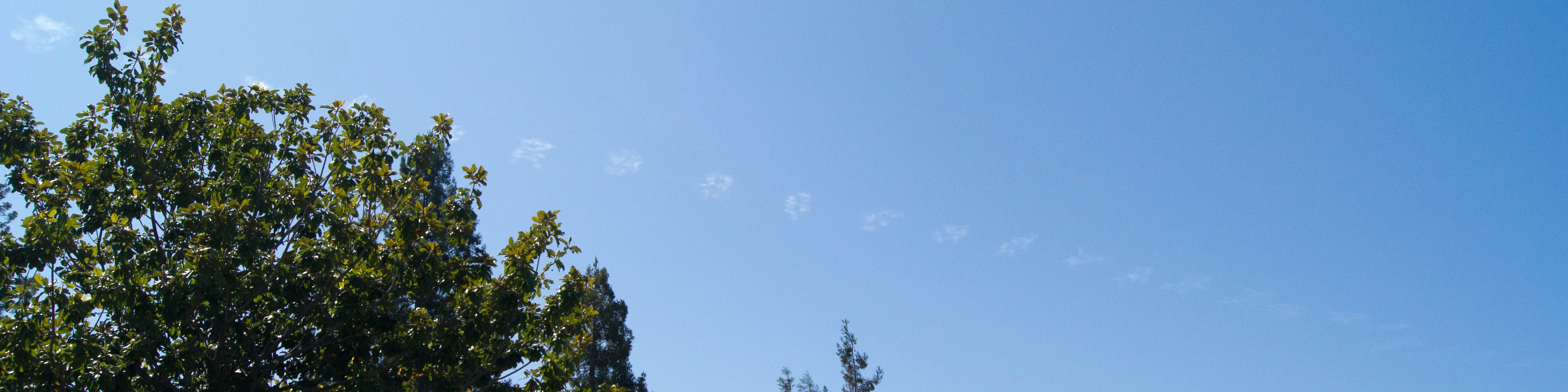 Numbers written in the sky by planes from Pi in the Sky art exhibition.